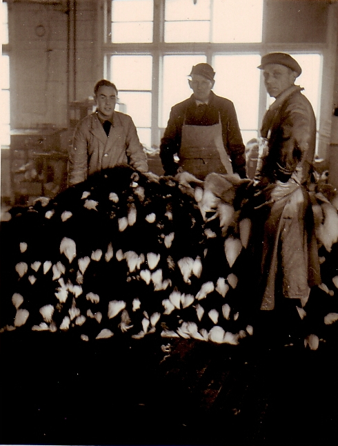 Impressions of a fur-skin grader at VEAB-Leipzig, DDR